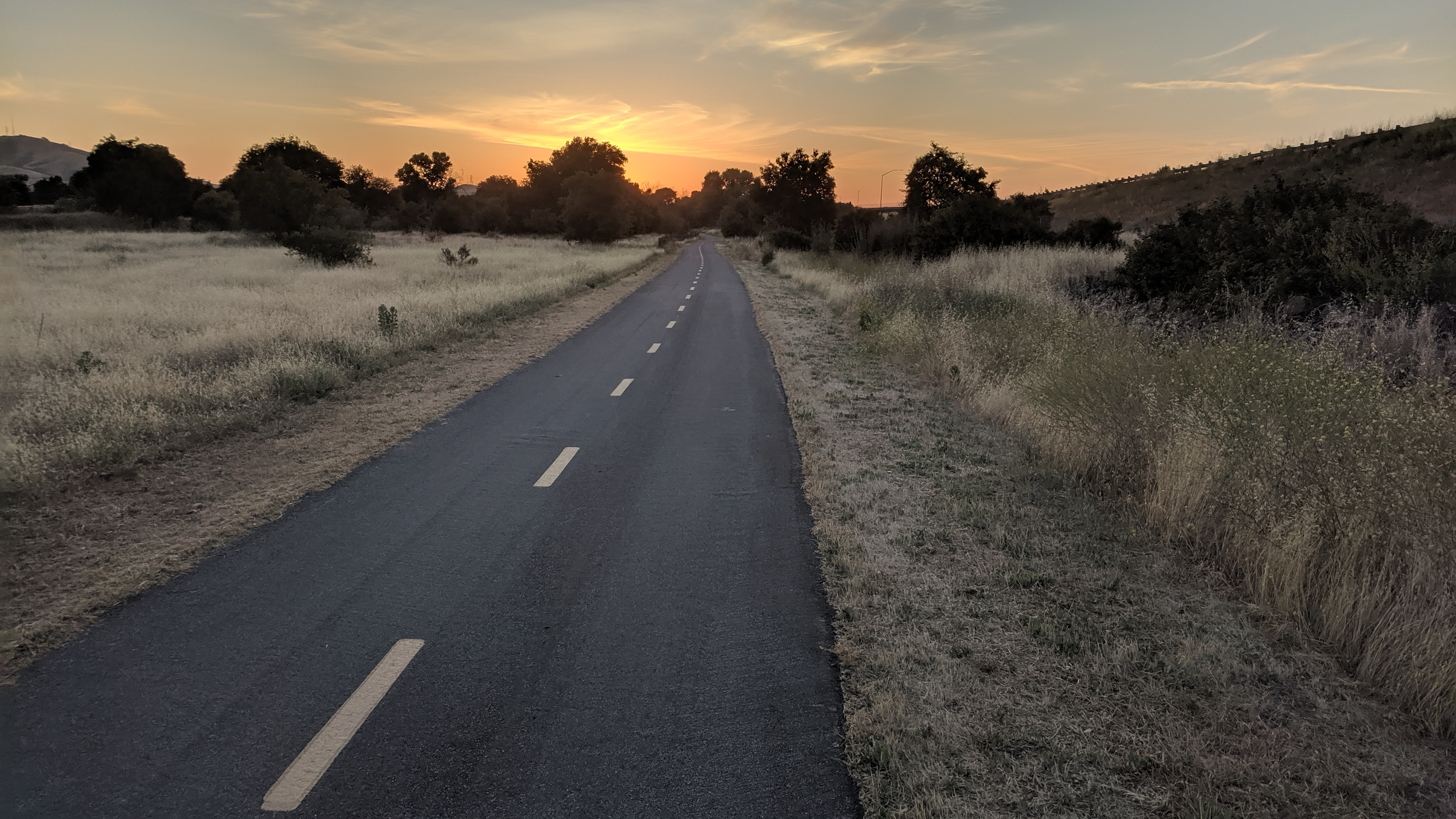 Coyote Creek Trail near Bailey Avenue in the Coyote Valley south of San Jose, California at sunset